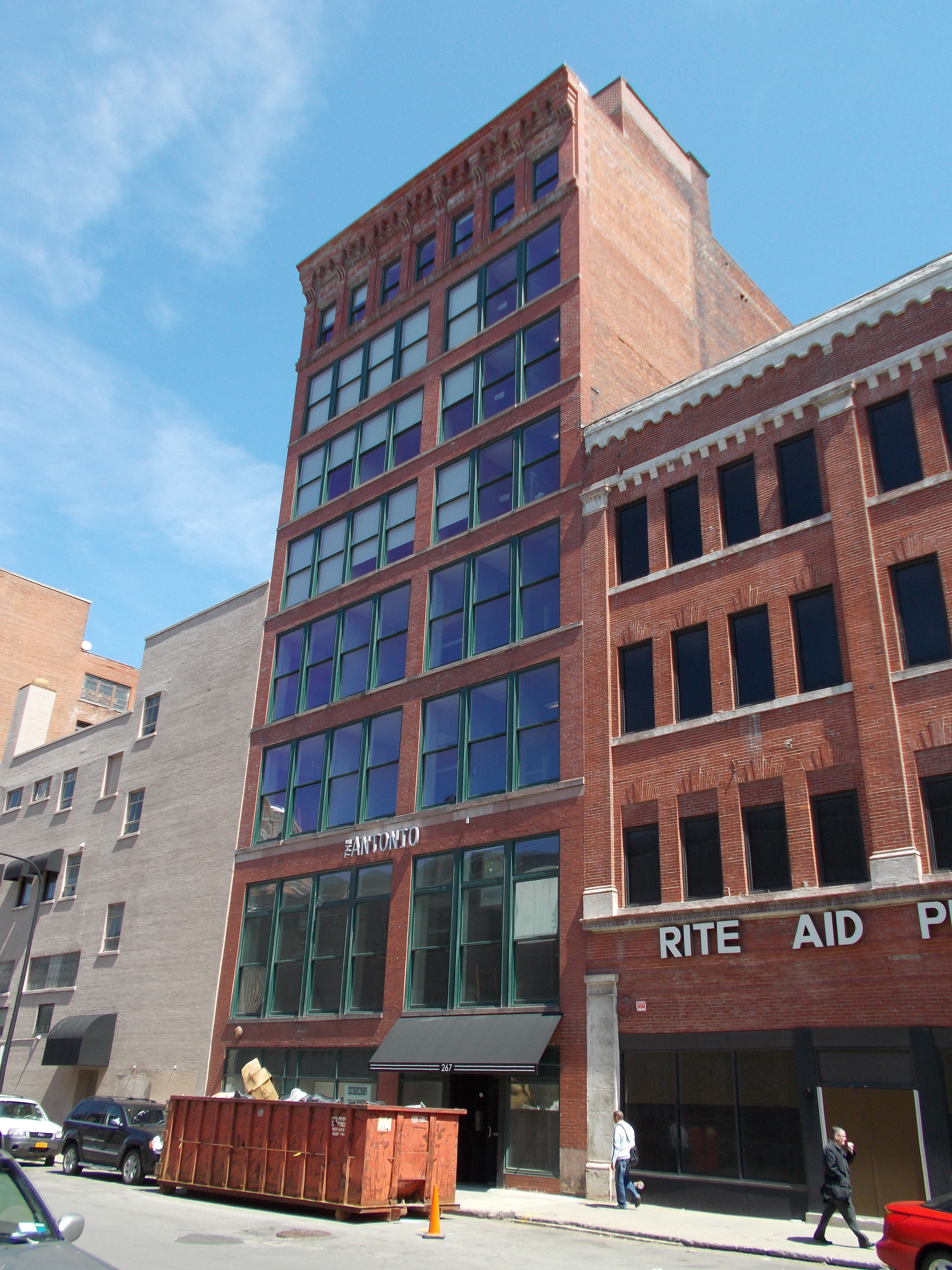 H.A. Meldrum & Company Building, South View, Buffalo, NY, April 2013